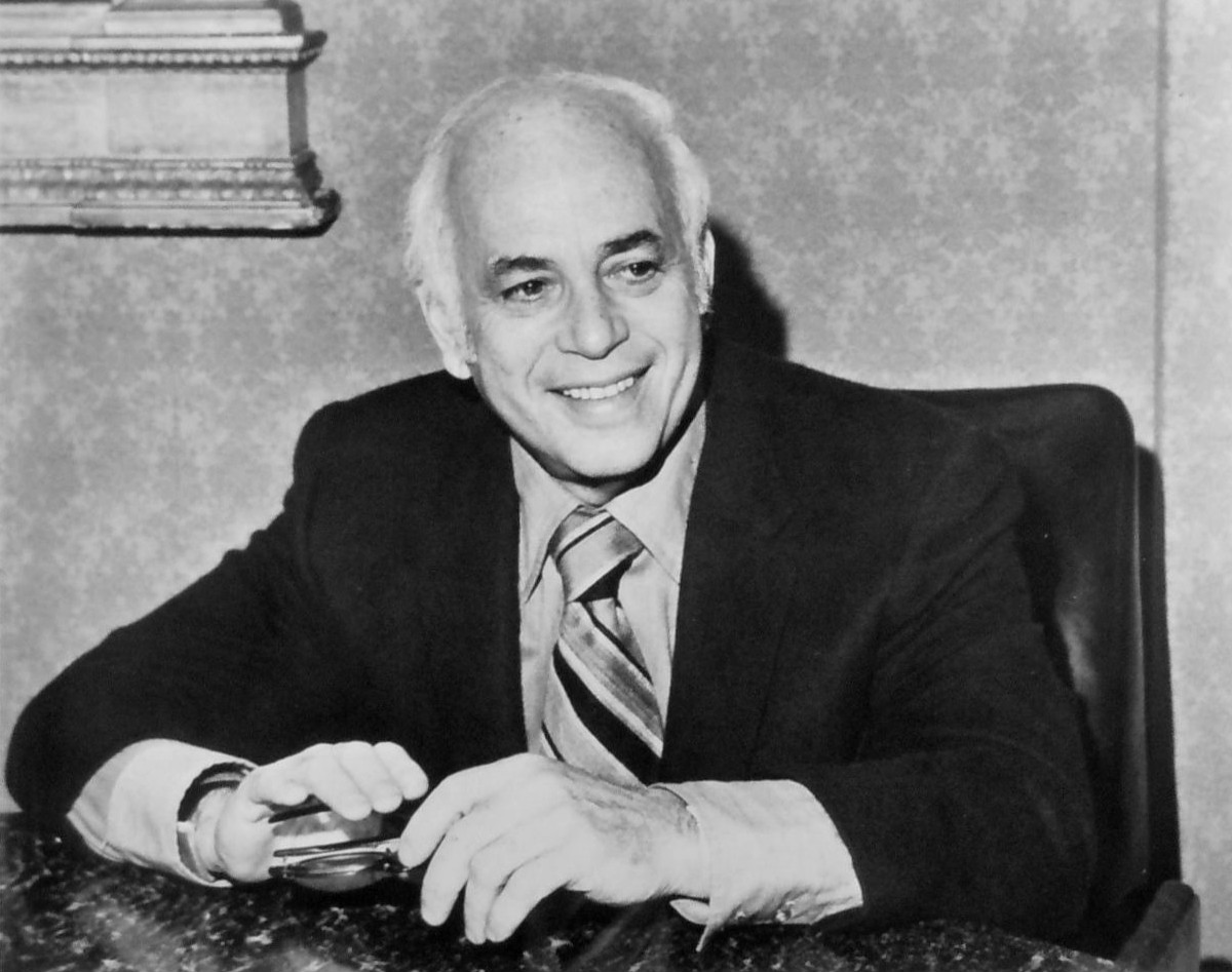 Photo of Allen Funt, probably best known for his Candid Camera television program, as a guest on the Dick Cavett talk show.